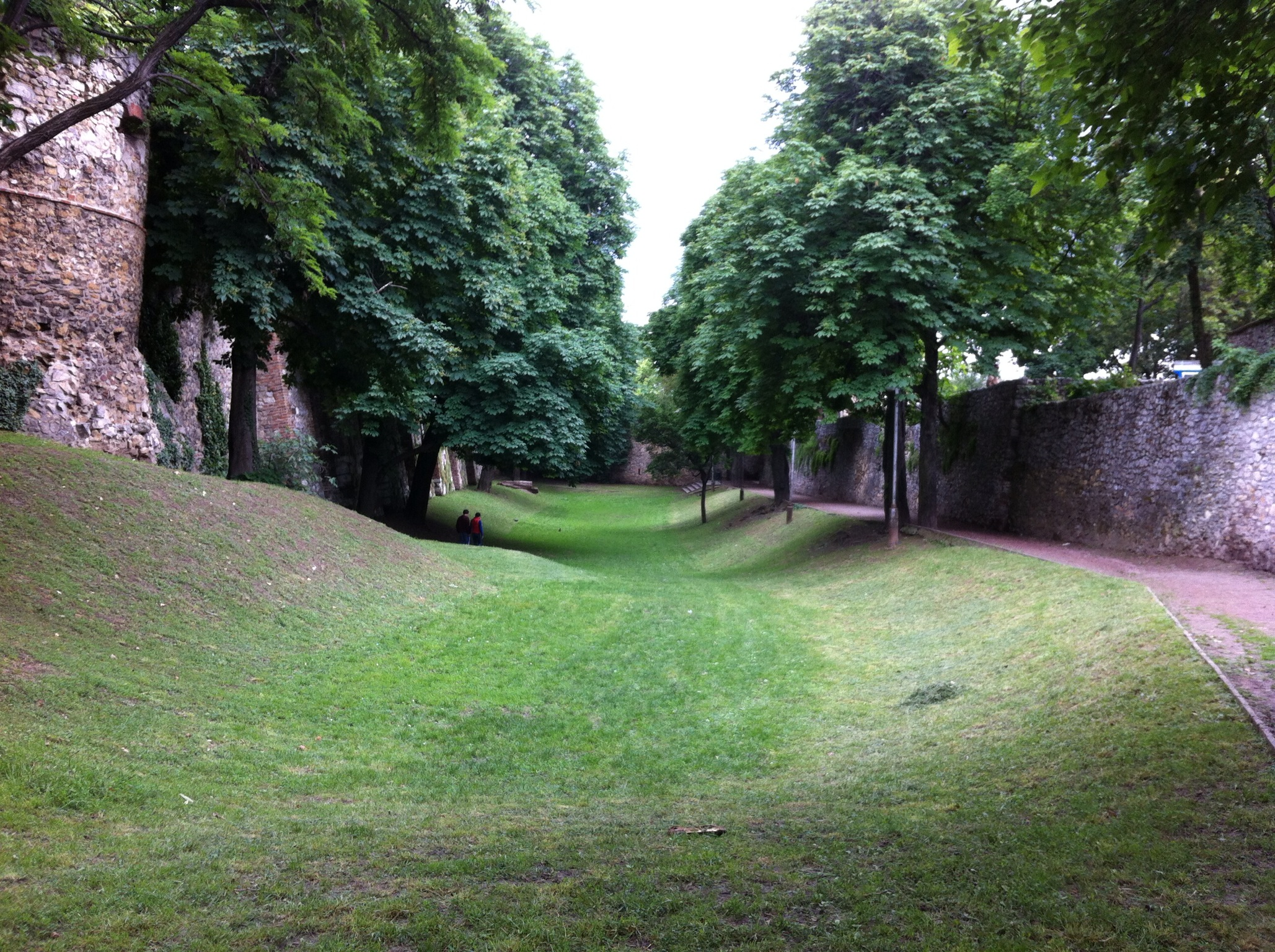 Moat in Pecs Castle, Hungary